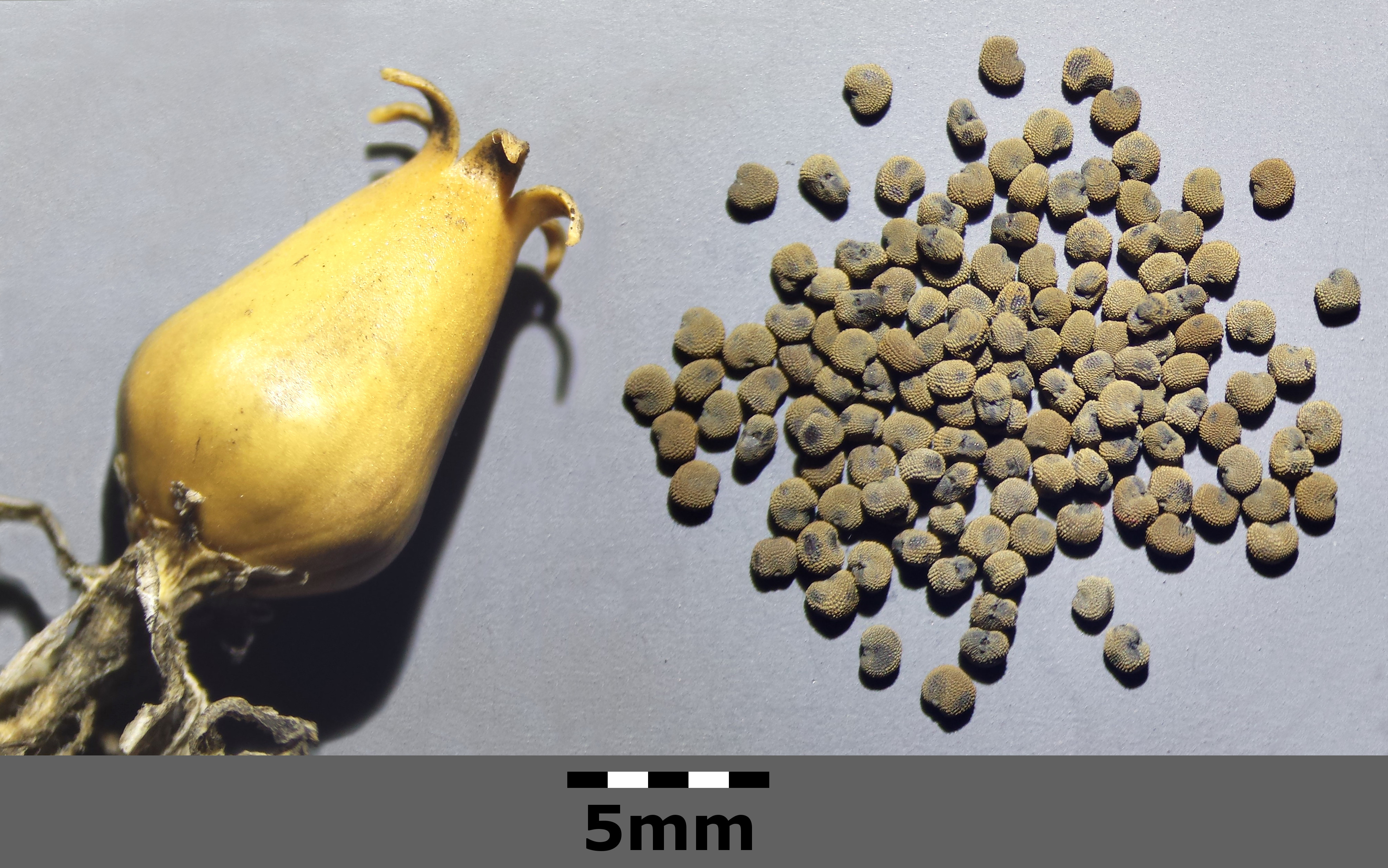 Capsule with seeds Taxonym: Silene noctiflora (ss Fischer et al. EfÖLS 2008; det. M. A. Fischer 2014-11-08) Location: Bierhäuselberg near Perchtoldsdorf , district Mödling, Lower Austria - ca. 350 m a.s.l. Habitat: wayside within a forest of Pinus nigra